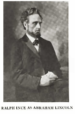 Ralph Ince as Lincoln